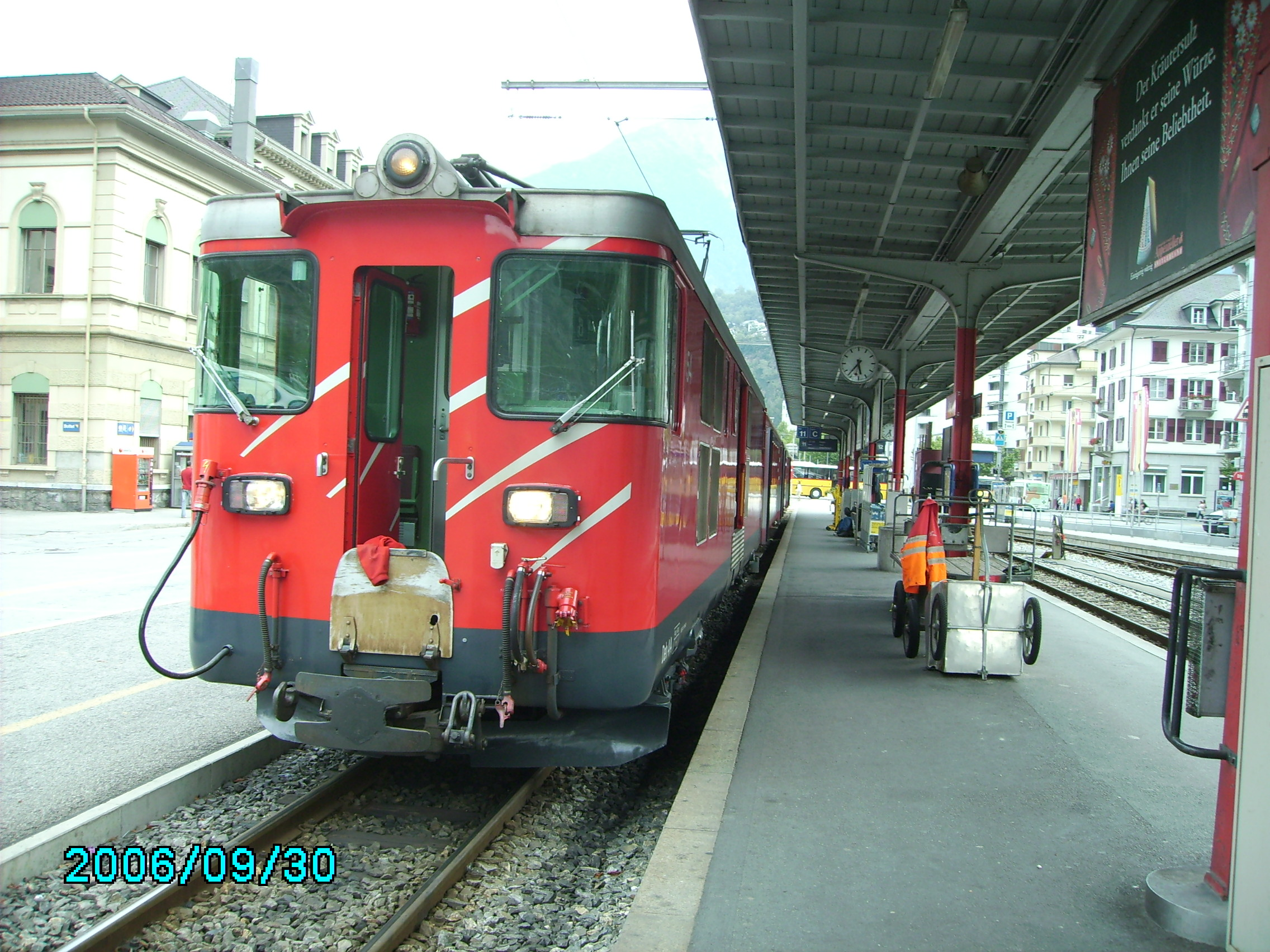 Deh 4/4 I of the Swiss Matterhorn-Gotthard-Bahn with an open front-door in Brig,Valais